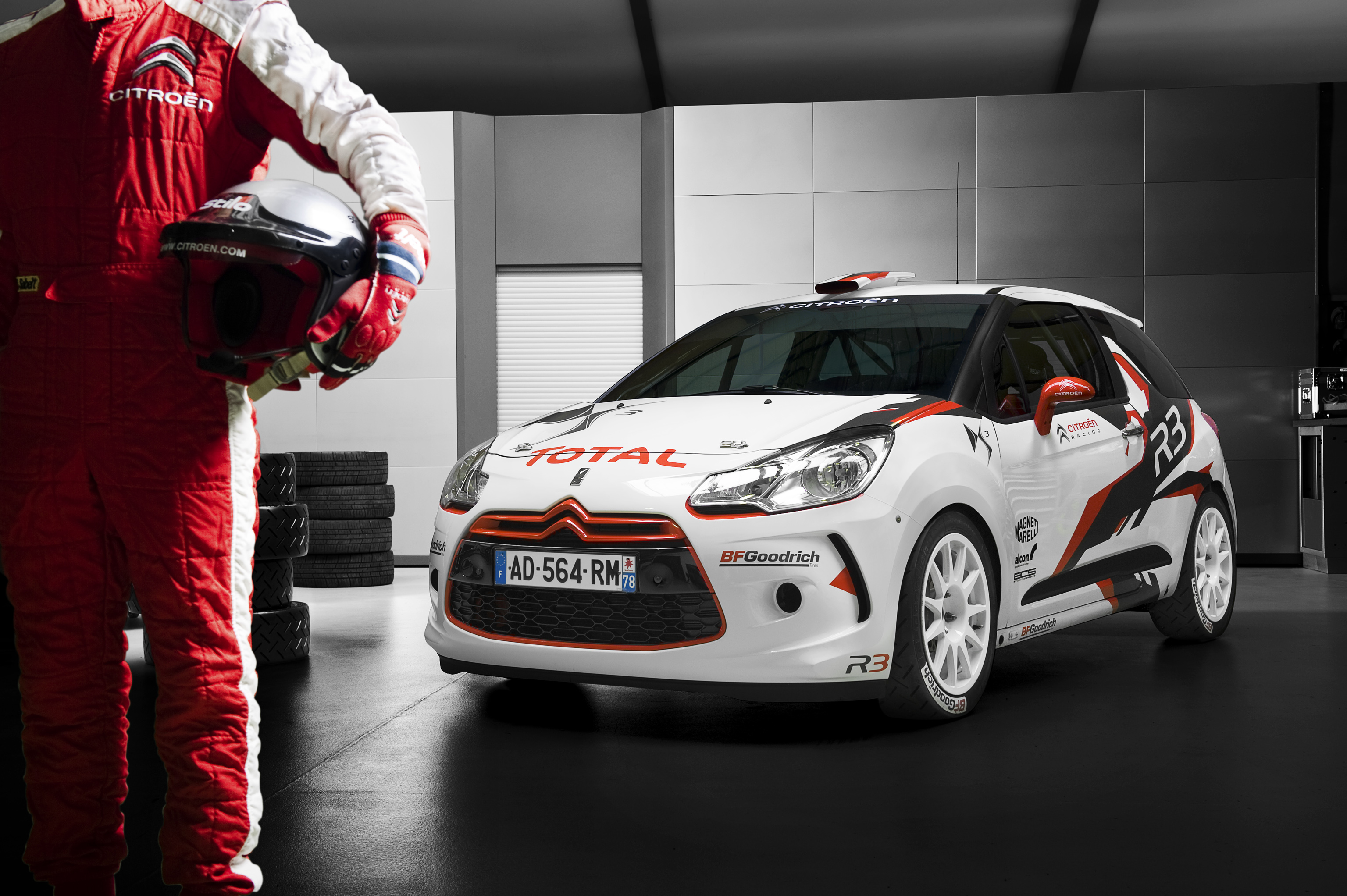 Promotional photo of the Citroën DS3 R3.